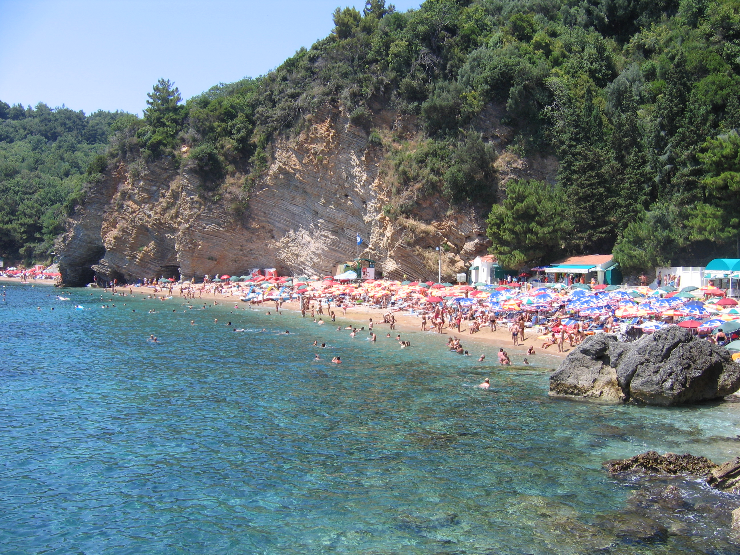 So crowded.